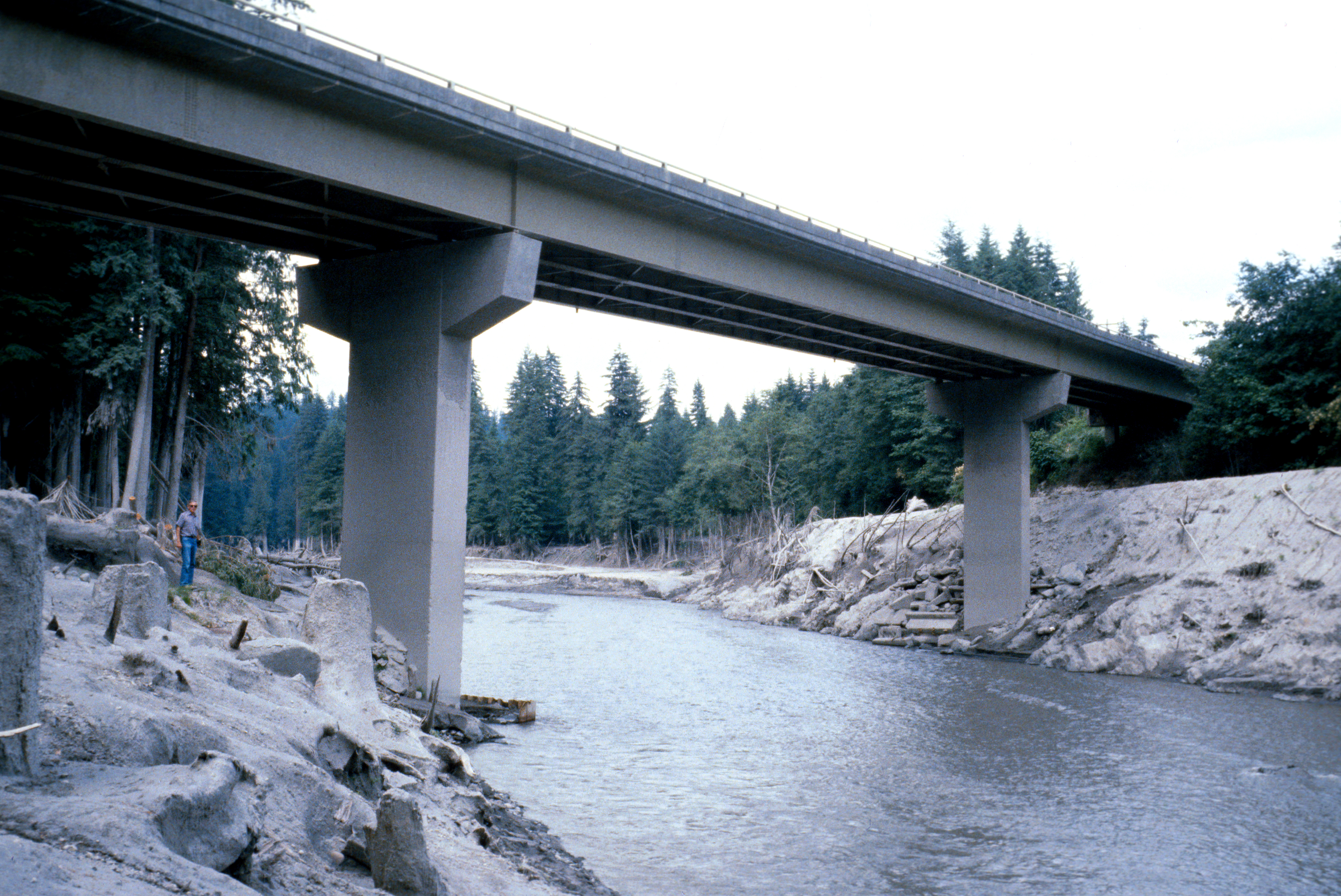 The Kid Valley bridge, carrying State Route 504 over the North Fork Toutle River, was left intact after the lahar of Mount St. Helens's May 1980 eruption destroyed the highway's other major bridges.